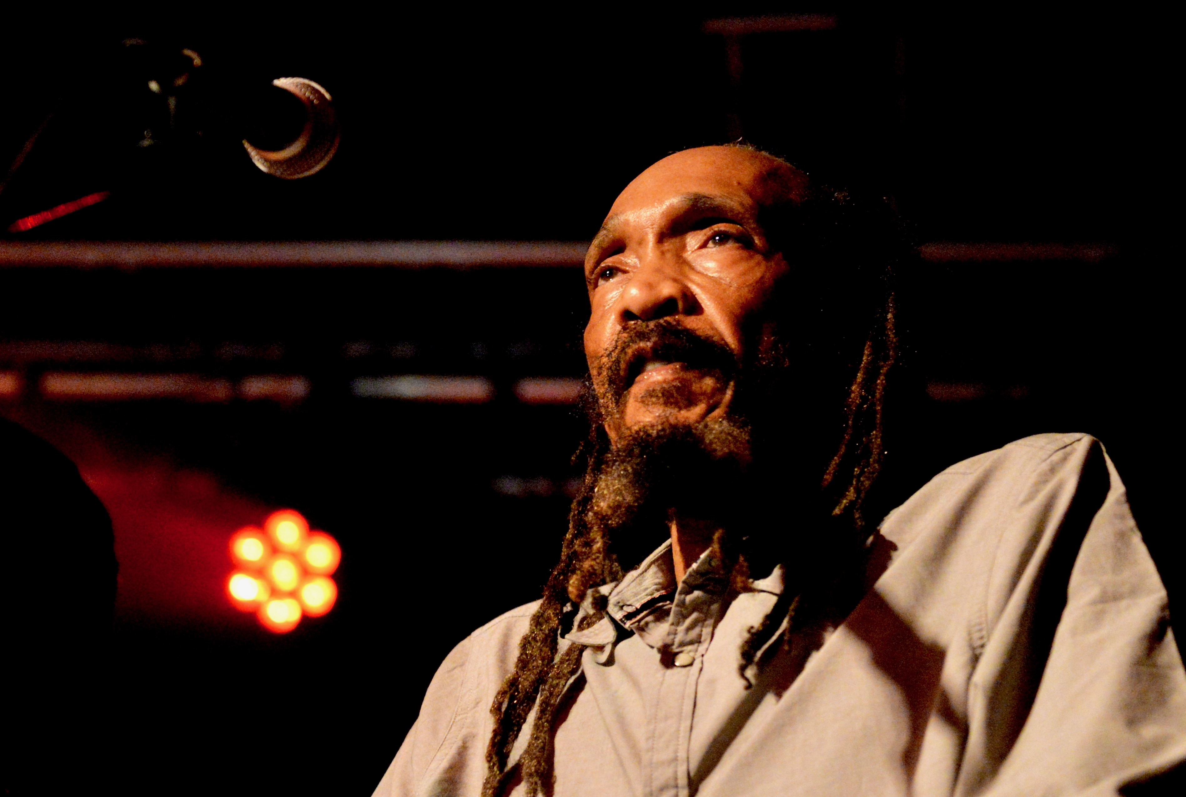 Cecil 'Skelly' Spence in concert in Antwerp June 16 2018